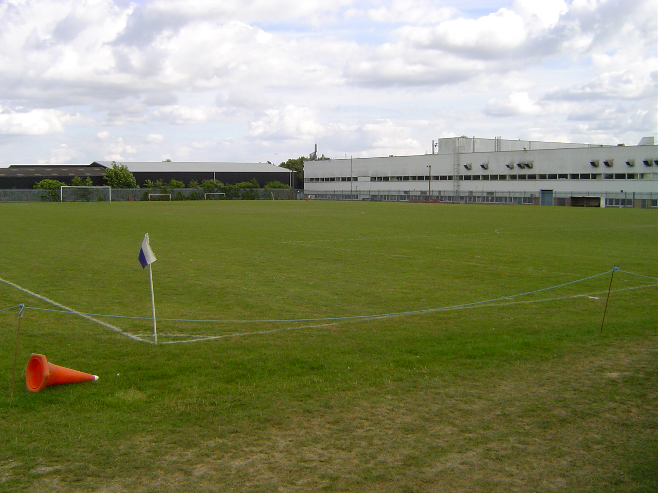 Sudbury Athletic Football Ground - Delphi Sports Club